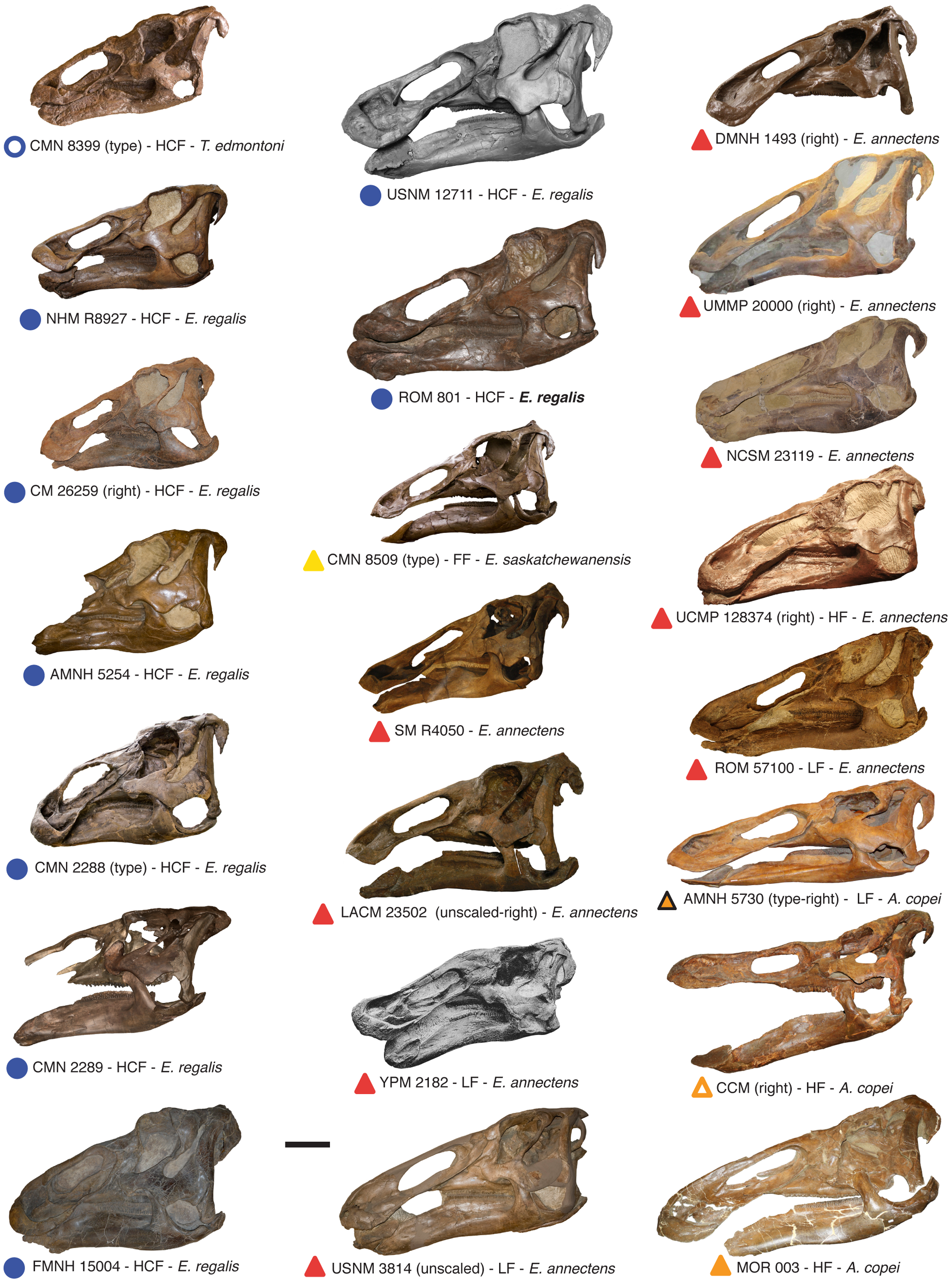 Compilation of virtually all known complete edmontosaur skulls from North America. All skulls are in lateral view (sometimes reversed). Labels below each skull include the symbol used in the morphometric plots, whether the specimen represents a holotype (type), the formation where it was uncovered (HCF, Horseshoe Canyon Formation; HF, Hell Creek Formation; FF, Frenchman Formation; LF, Lance Formation), and the species name based on traditional edmontosaur taxonomy. Scale bar, 20 cm.